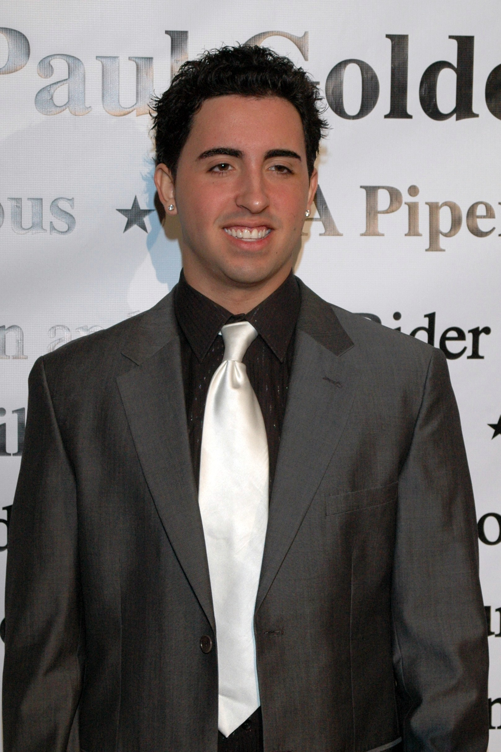 Colby O'Donis on the Children Uniting Nations Academy Award Viewing Party red carpet, at the Beverly Hilton, Beverly Hills, Los Angeles, California. Held preceding the start of the Oscar telecast.